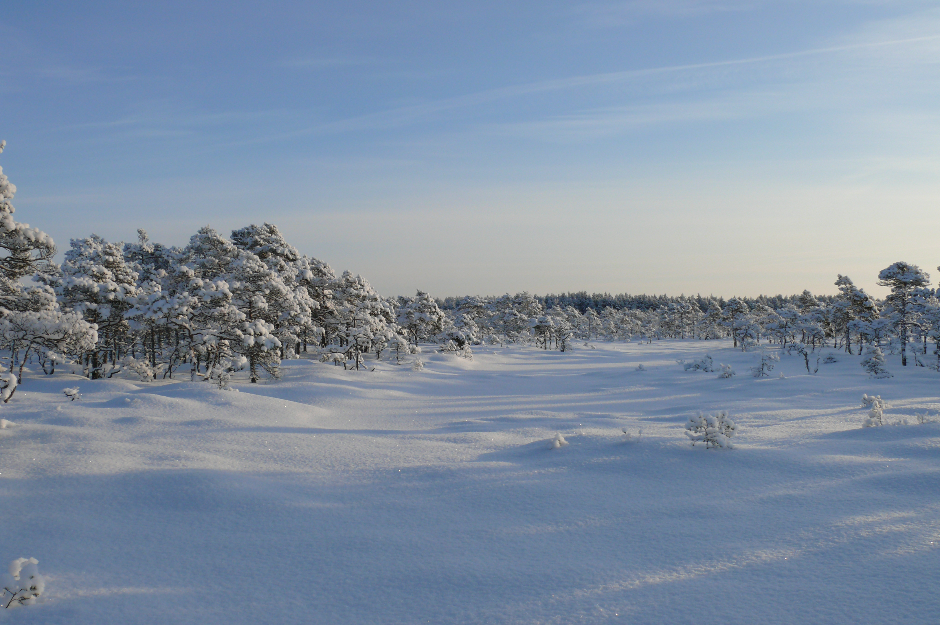 Väätsa bog in winter.